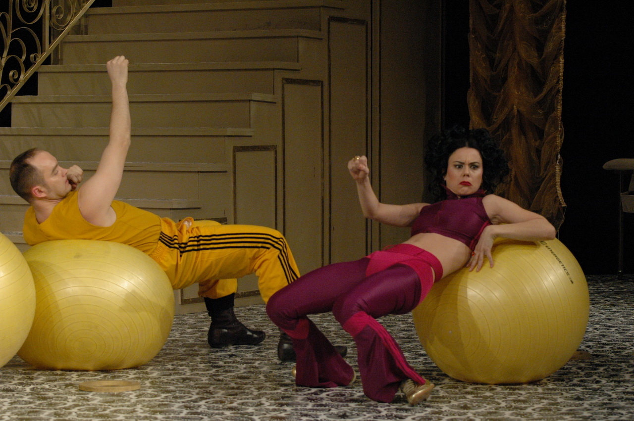 "Tartuffe", Drama of SNT, Novi Sad, 2007/08; one of the most famous theatrical comedies by Molière; directed by Dušan Petrović; actors: Strahinja Bojović, Jovana Stipić Srpski (latinica): "Tartif", Drama SNP, 2007/08; jedna od najpoznatijih Molijerovih komedija; u režiji Dušana Petrovića; glumci: Strahinja Bojović, Jovana Stipić Српски (ћирилица): "Тартиф", Драма СНП, 2007/08; једна од најпознатијих Молијерових комедија; у режији Душана Петровића; глумци: Страхиња Бојовић, Јована Стипић